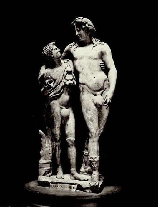 Giorgio Sommer (1834-1914) - "Bacco e Ampelo (Florence)". Catalogue # 1806.